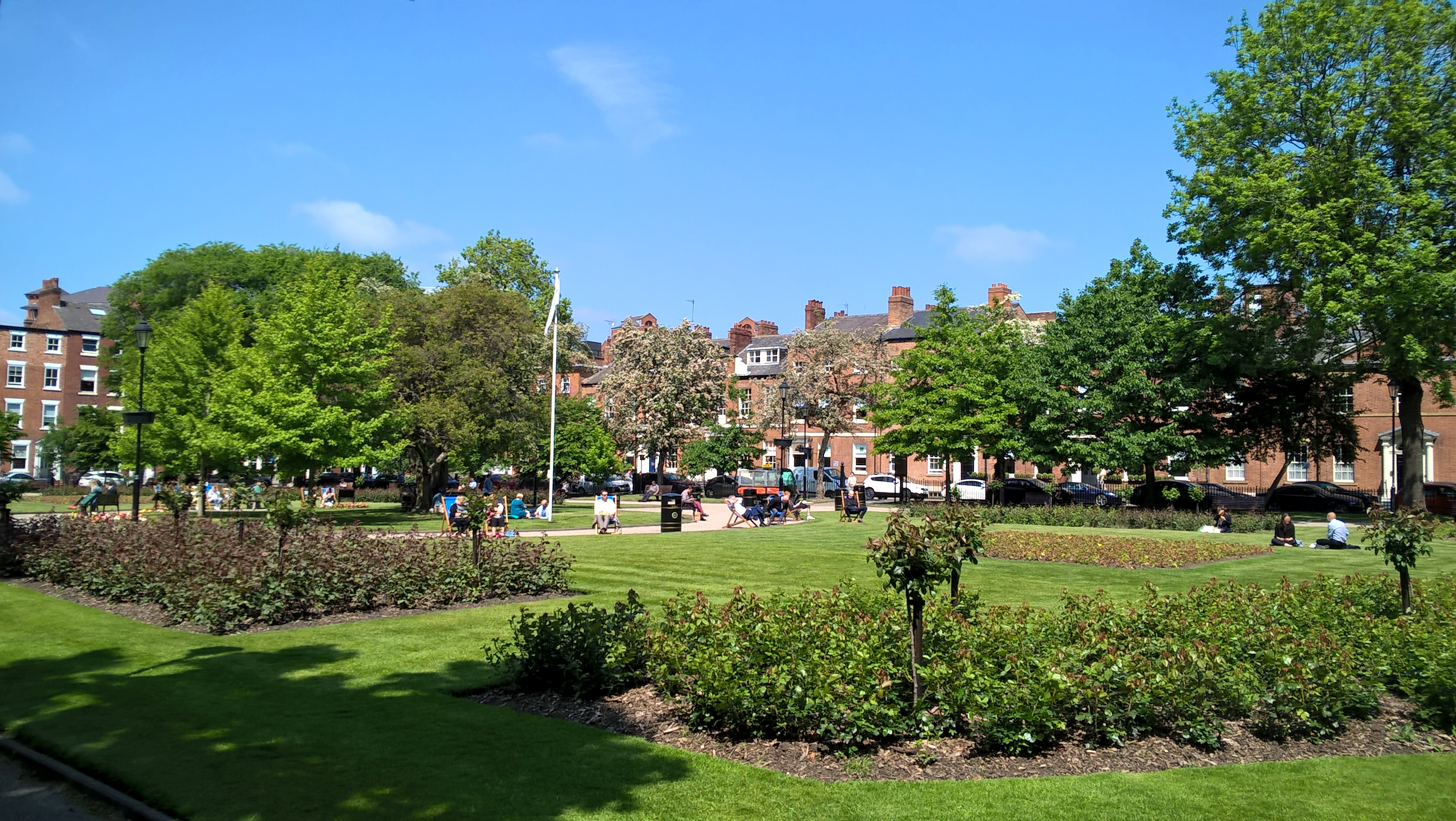 View of Park Square, Leeds looking northwest. People in deck chairs and on the grass.